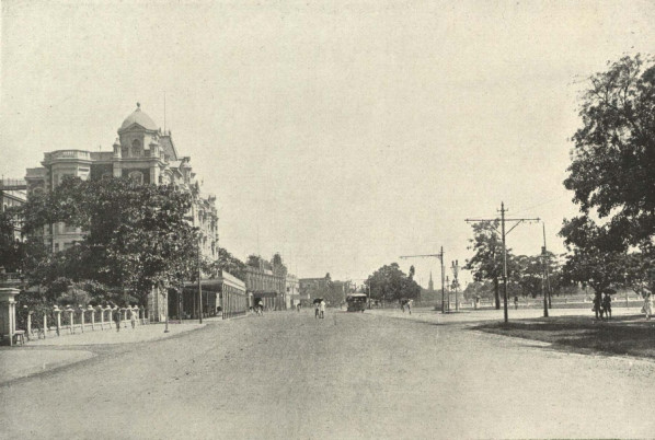 A fine example of Calcutta's modern broad streets.